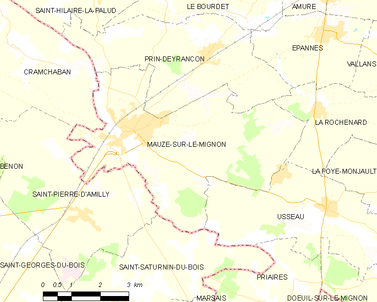 Map of French municipality Mauzé-sur-le-Mignon